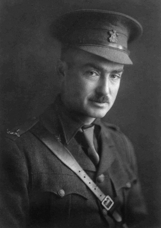 Photo of G.T. Richardson in uniform